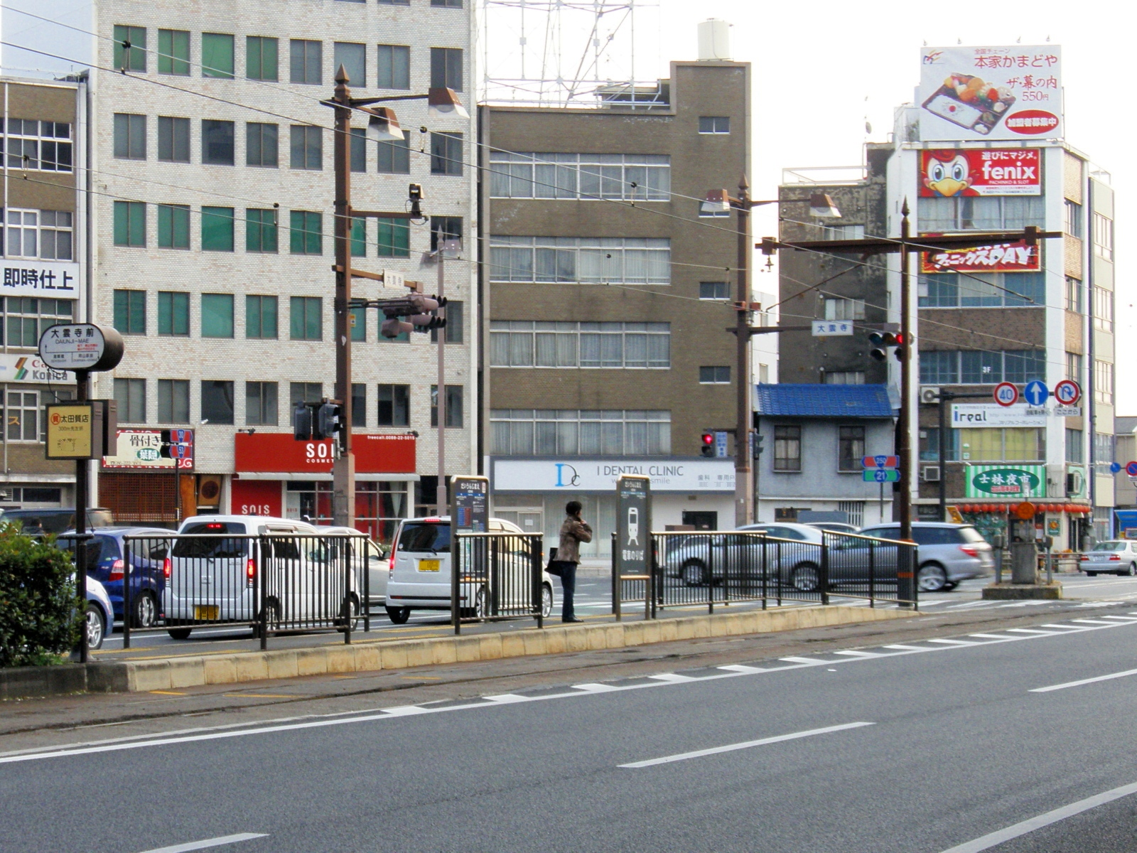 Okayama Electric Tramway Daiunjimae Station.